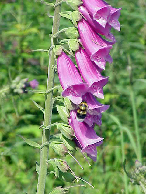 Species: Digitalis purpurea Family: Scrophulariaceae Image No. 3